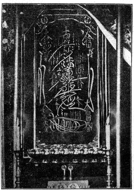 Early photograph of the Dai-Gohonzon at Taisekiji, allegedly created by Nichiren in the 13th century. Printed in Kumada Ijō's (熊田葦城) book Nichiren Shōnin (日蓮上人), 8th edition, page 375. Published in 1913 (大正2年). First edition published in 1911 (明治44年).